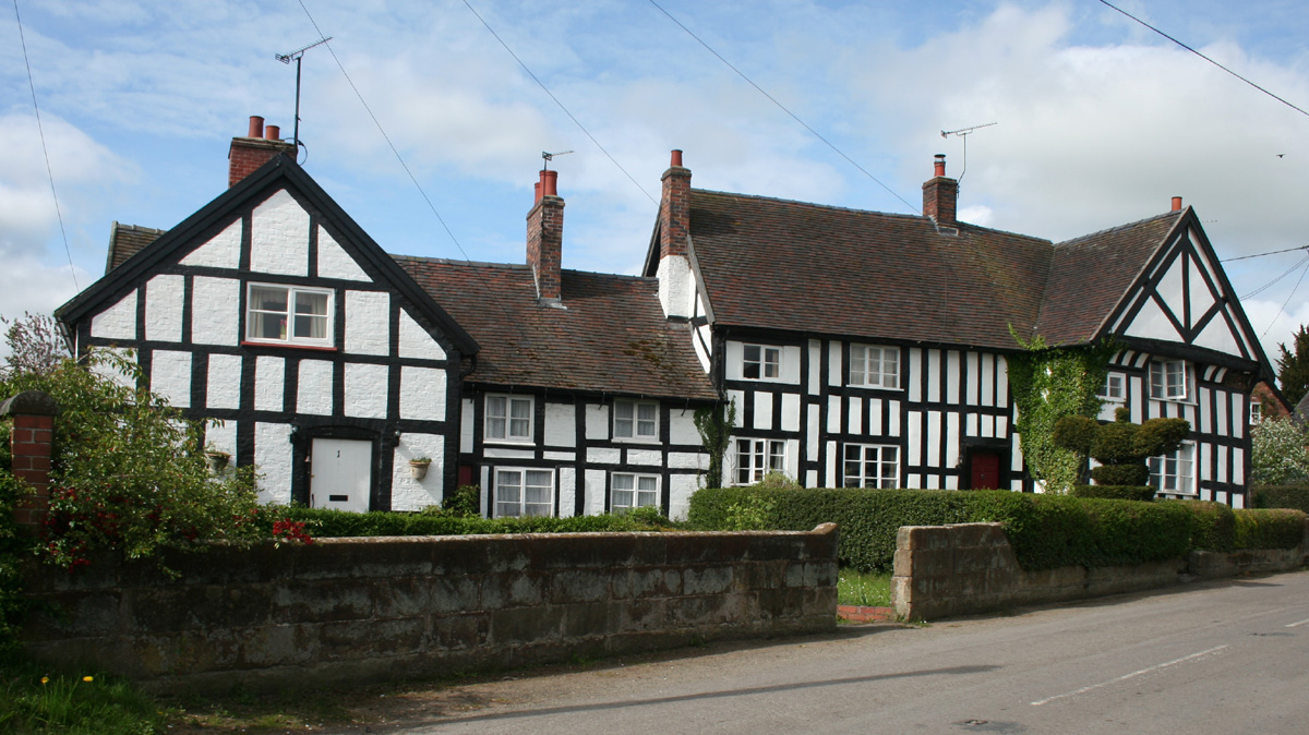 1–4 Black and White Cottages, corner of Church Lane and Wirswall Road, Marbury, Marbury cum Quoisley (near Whitchurch), Cheshire